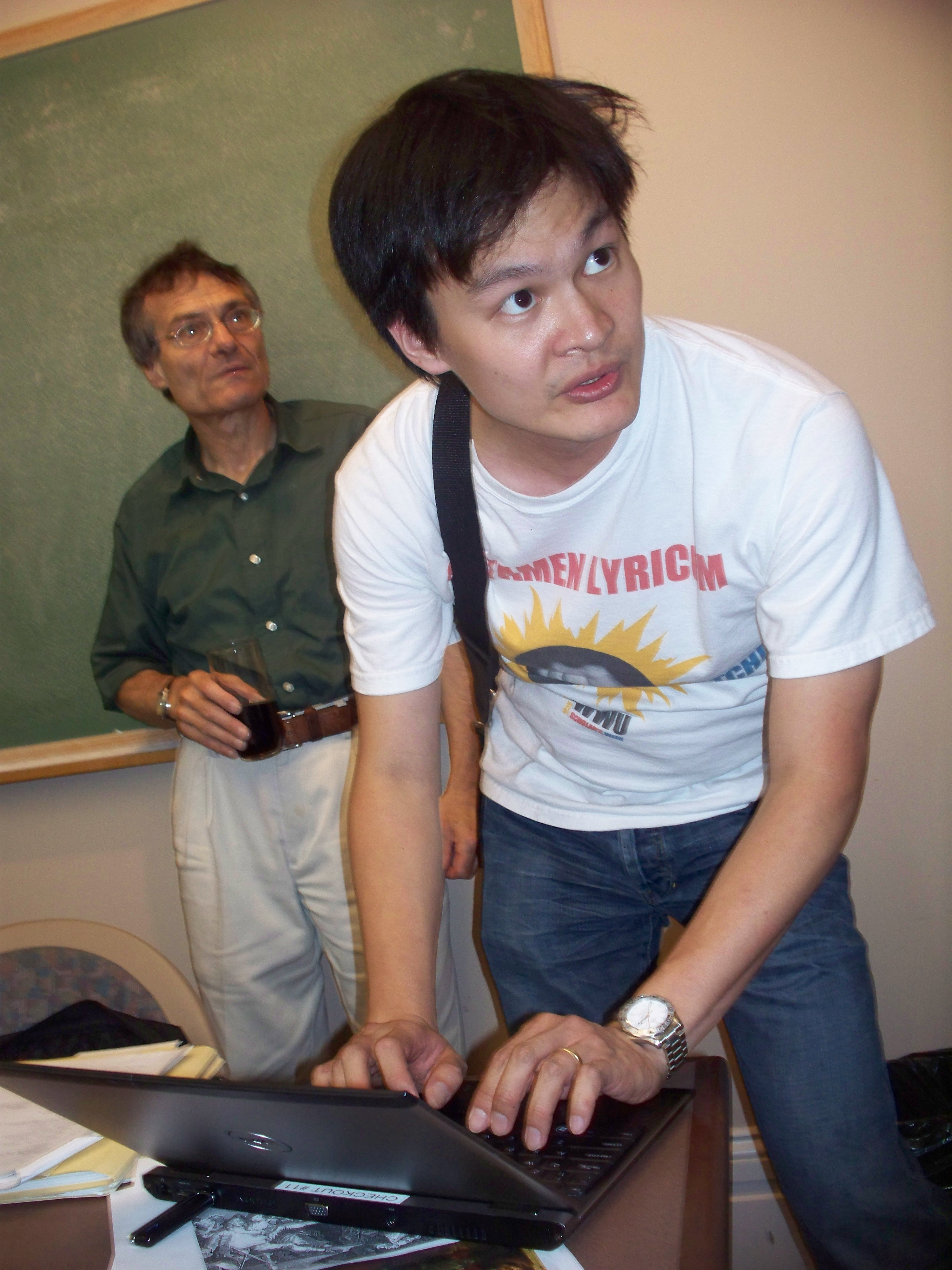 Akihiko Watanabe.